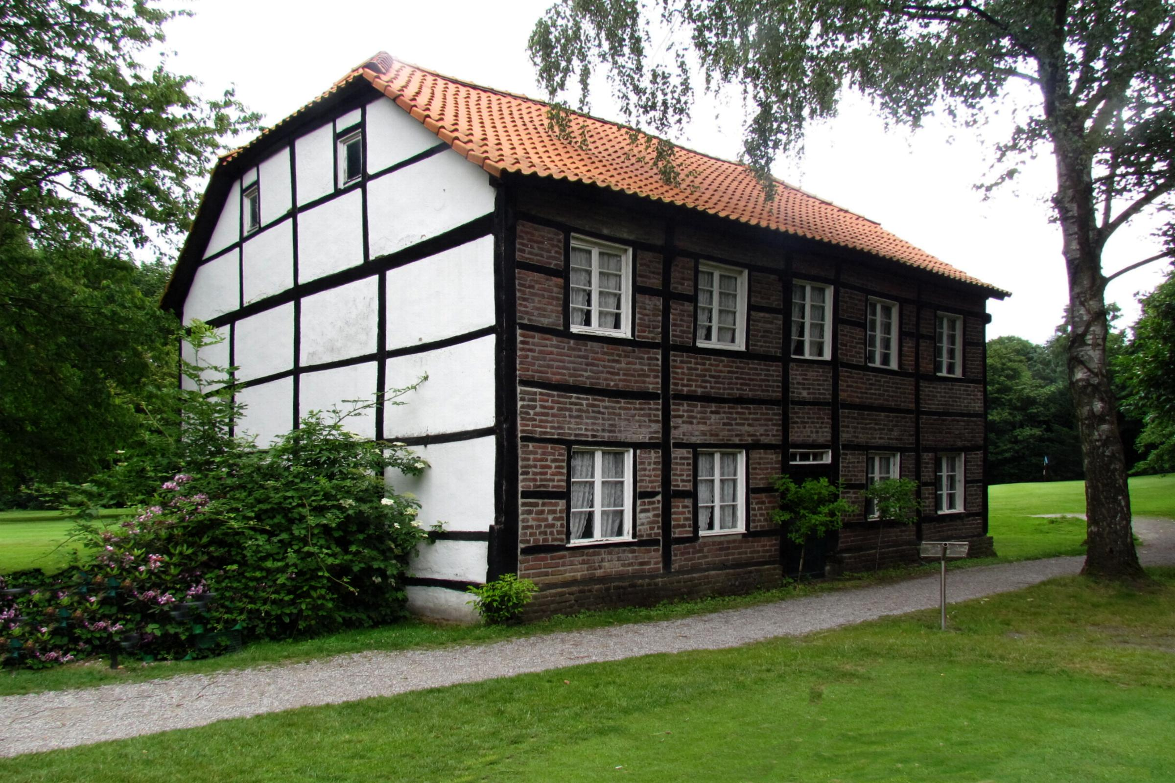 This is a photograph of an architectural monument.It is on the list of cultural monuments of Korschenbroich